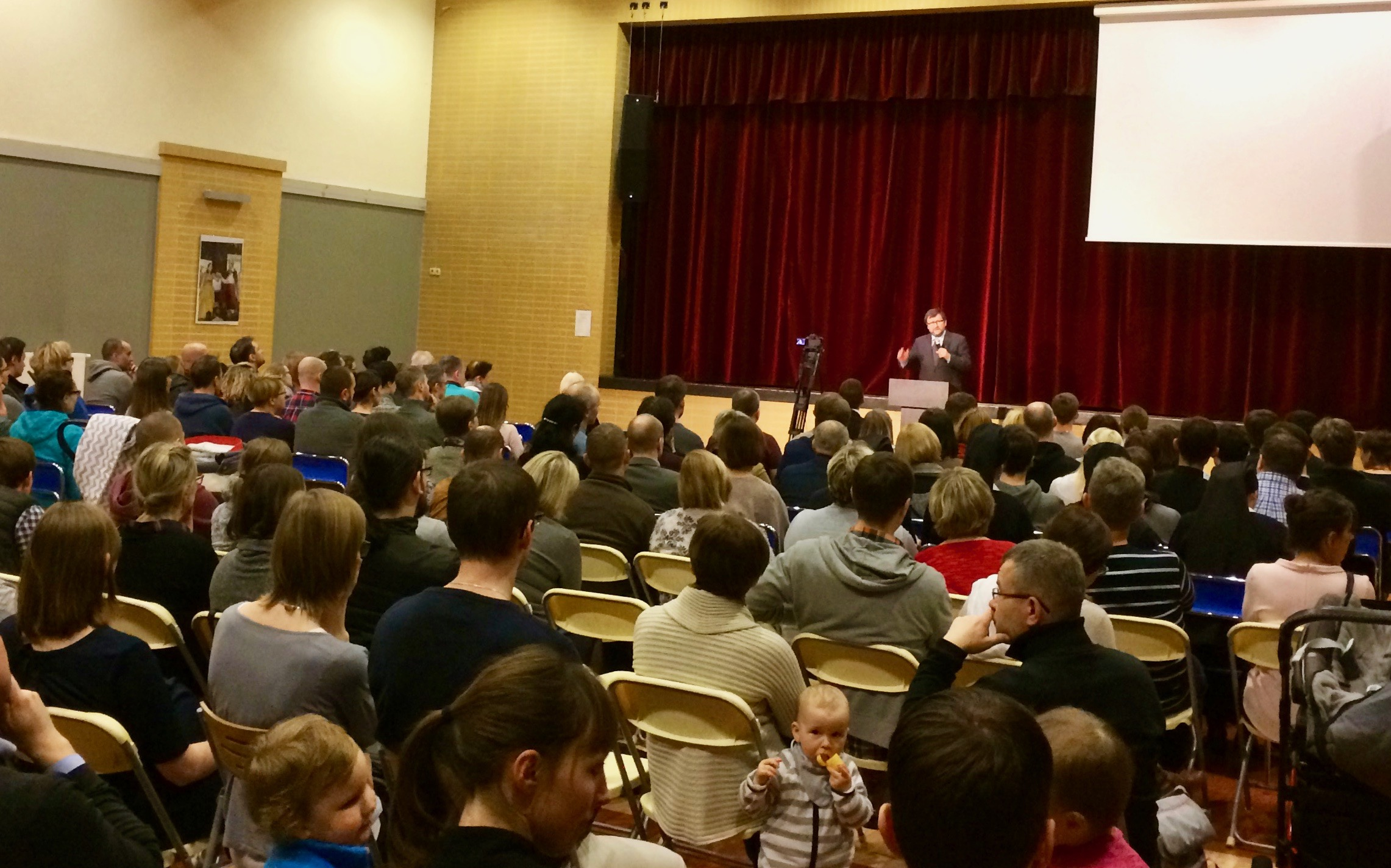 Dr Pulikowski delivering a conference in Józefów 2018